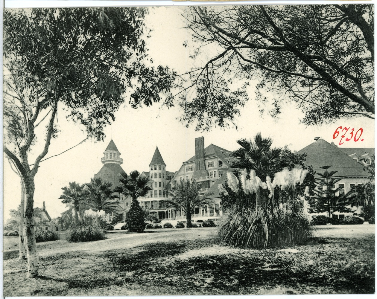 This postcard is from publisher Brück & Sohn in Meißen ( This postcard has a unique number 06730 and is available in a higher resolution at the publisher. This images was uploaded in a cooperation project between Wikipedians and the publisher.